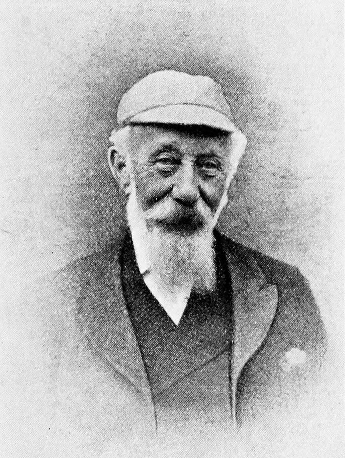 British zoologist and taxidermist Abraham Dee Bartlett (1812–1897)